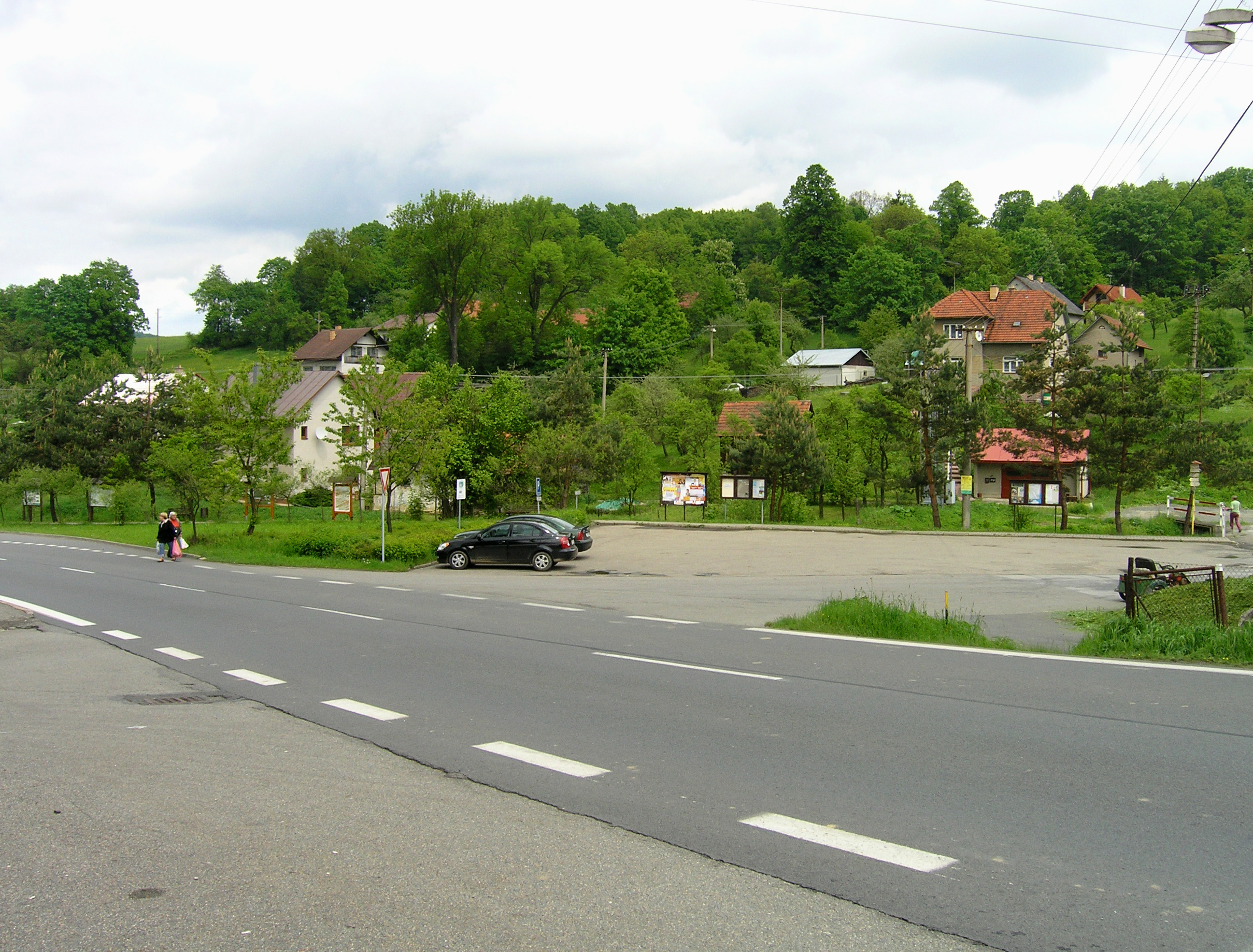 Common in Pozděchov, Czech Republic